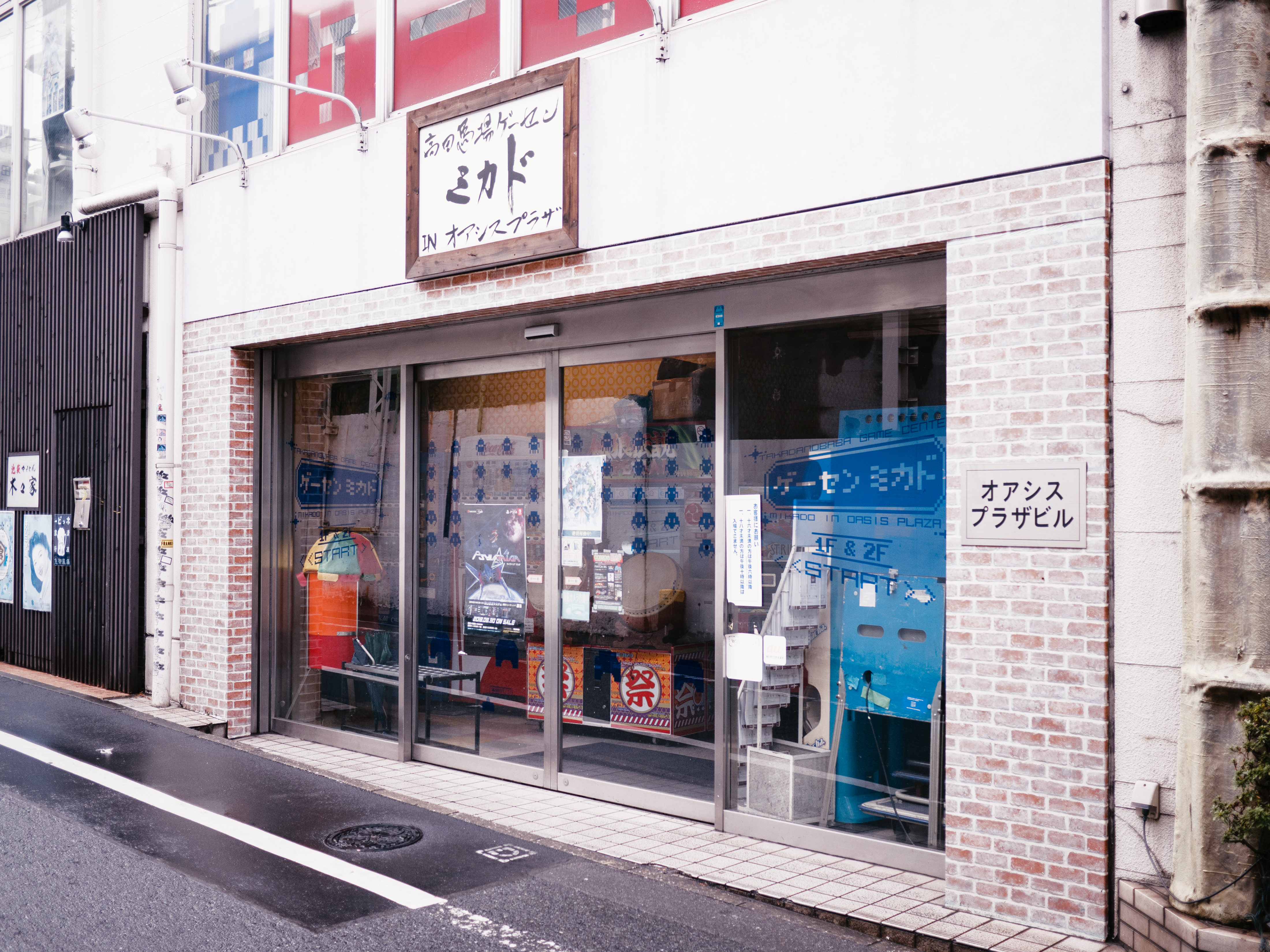 Takadanobaba Game Center Mikado